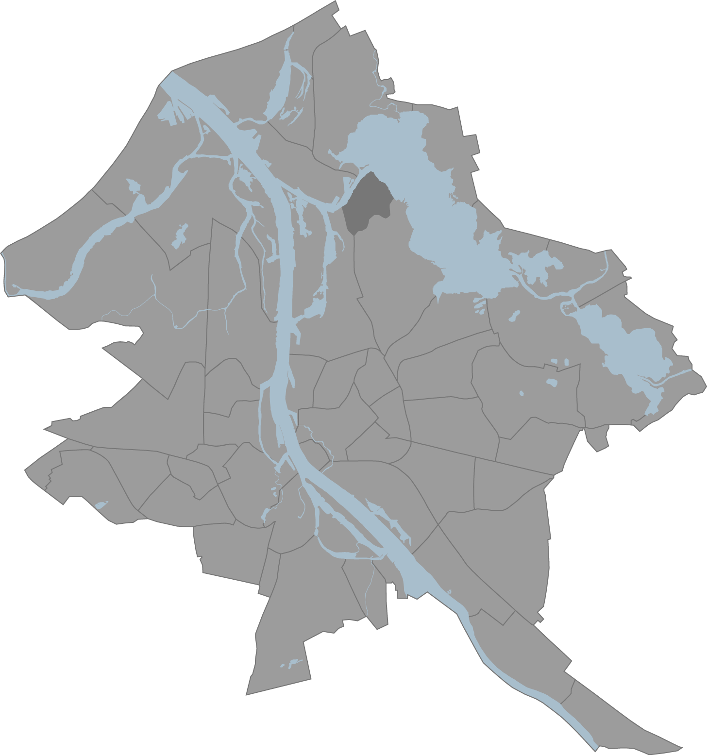 A map of Riga, Latvia with the eponymous commune highlighted